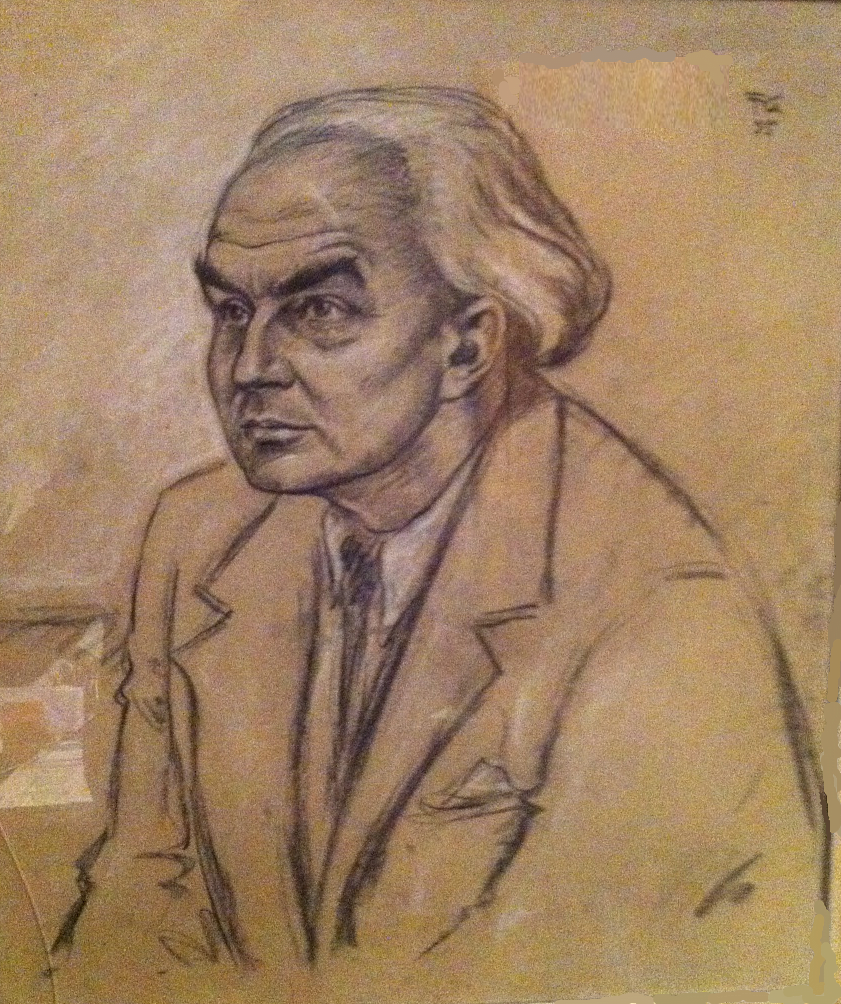 The picture shows the German physicist Professor Dr.-Ing. habil. Horst Teichmann in spring 1955